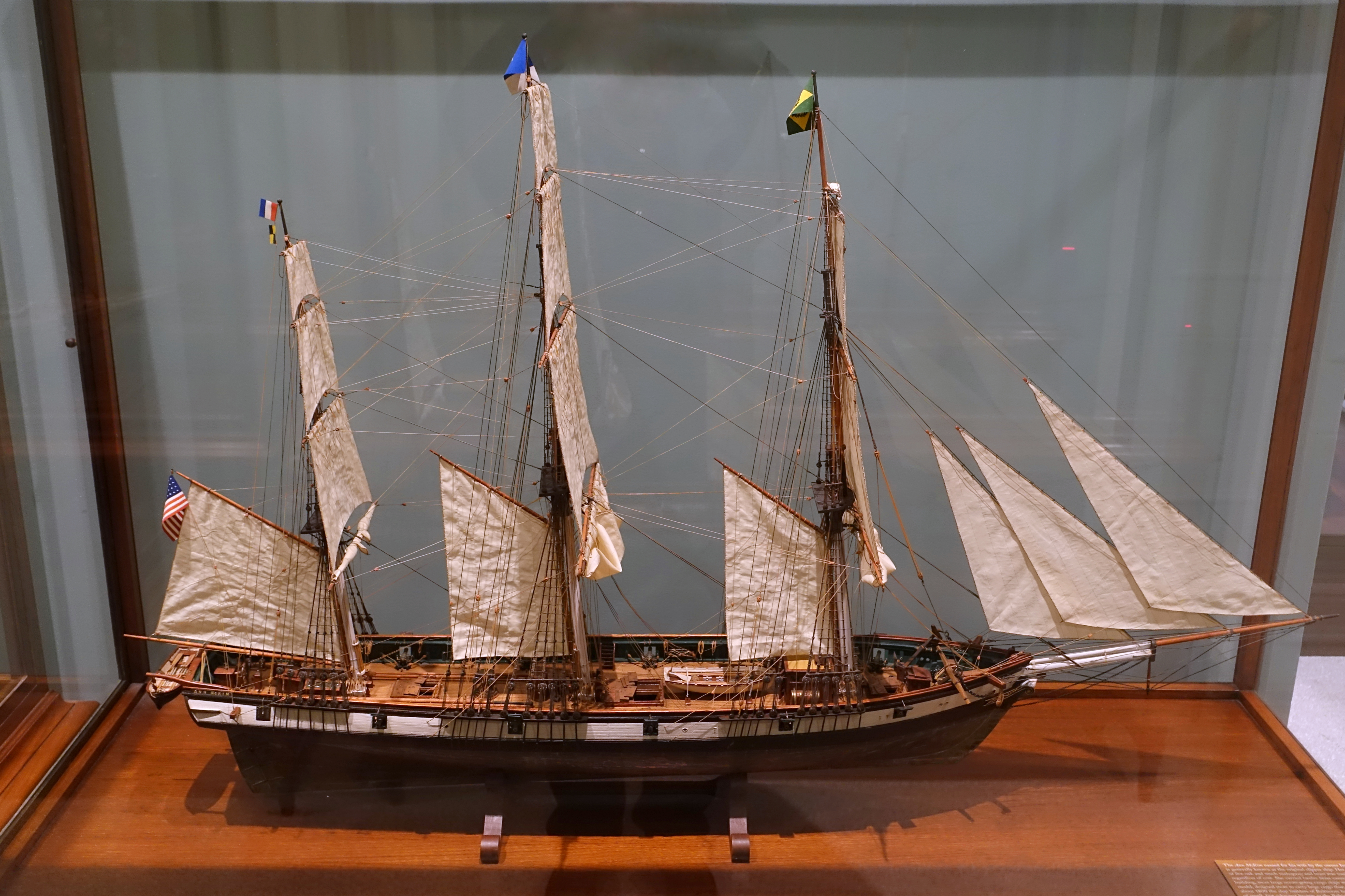 Ship model in the Addison Gallery of American Art - Phillips Academy Andover - Andover, Massachusetts, USA.